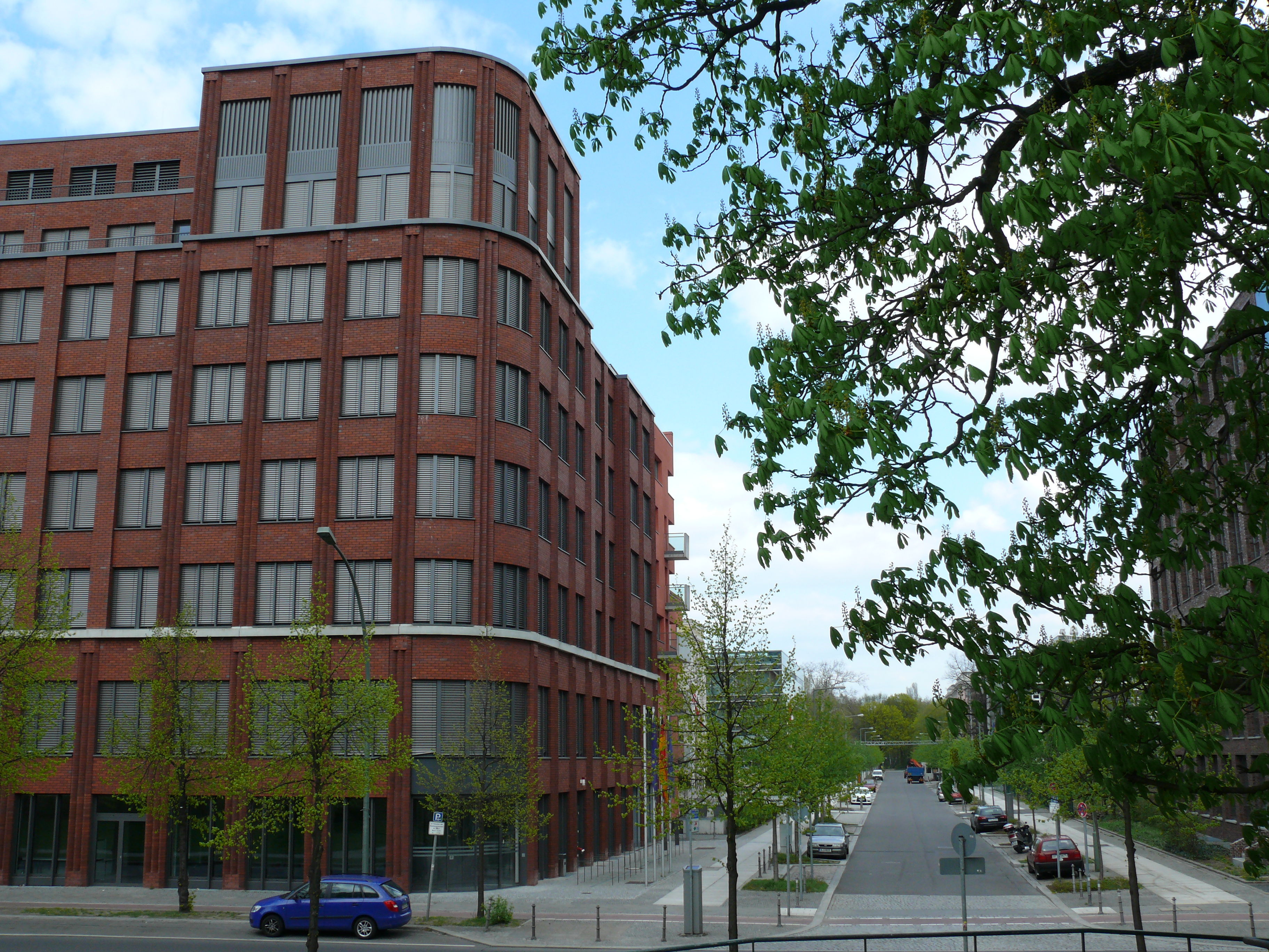 Berlin-Tiergarten Hiroshimastraße Friedrich-Ebert-Stiftung